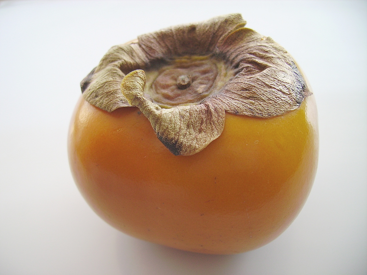 A kaki persimmon or kaki fruit (Diospyros kaki)